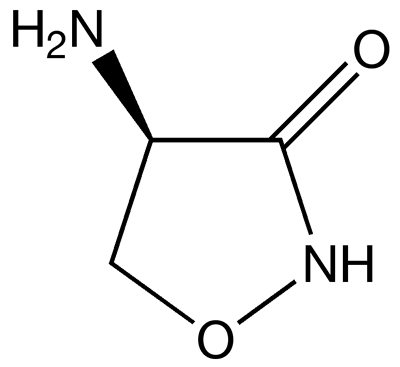 Structure of d-cycloserine. Created with ChemDraw.